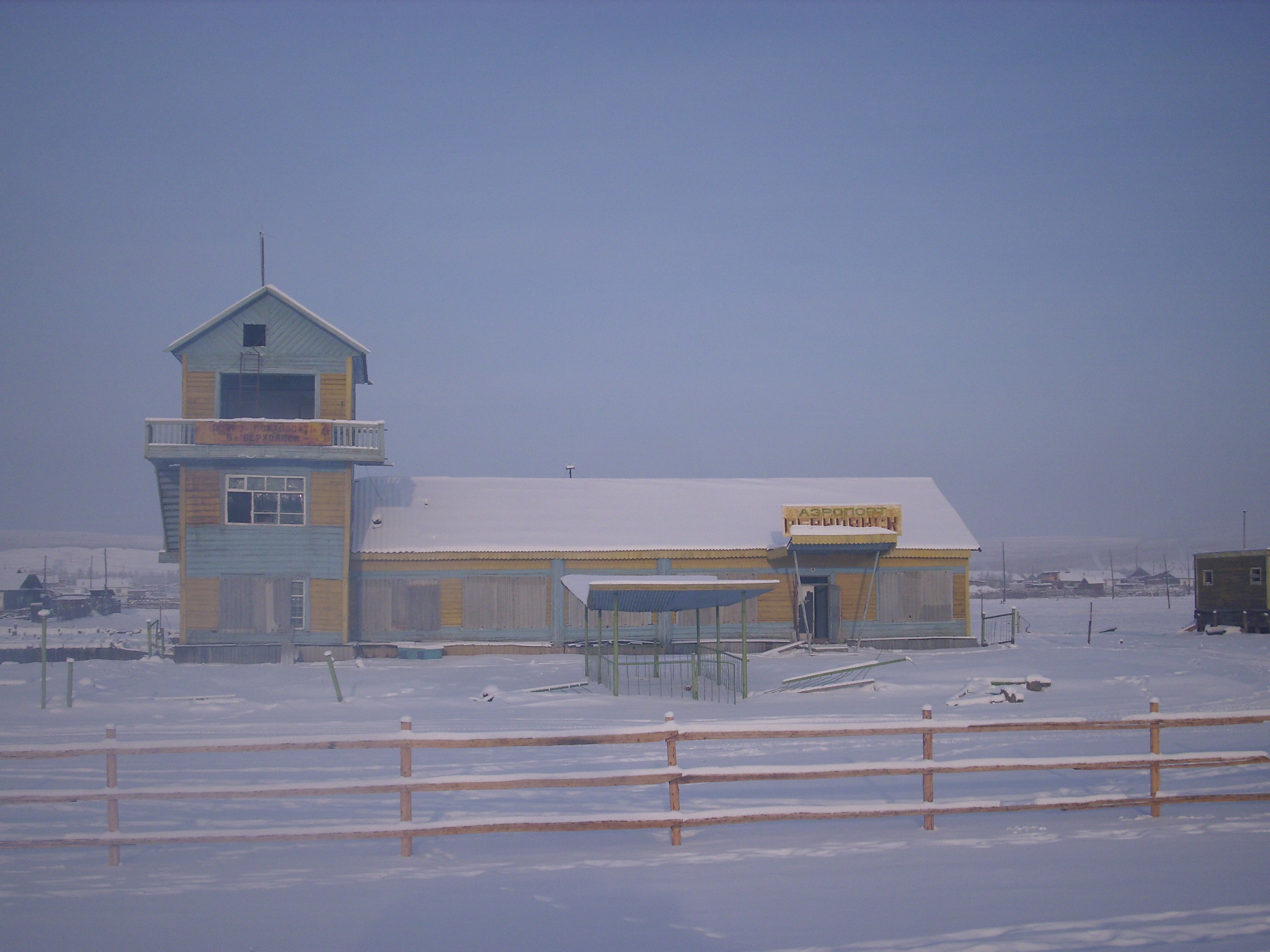 Tower of the closed airport of Verkhoyansk